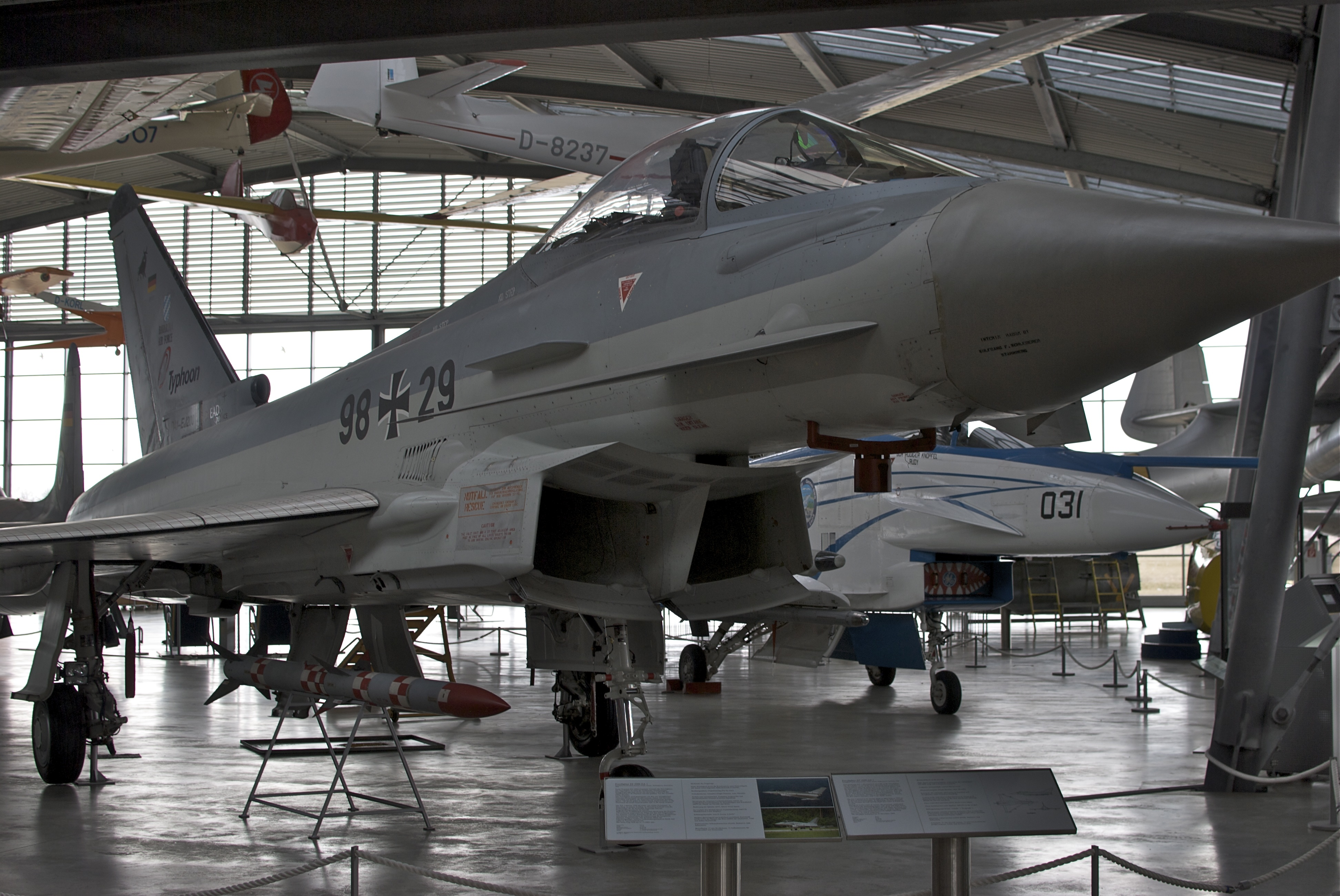 Eurofighter Typhoon